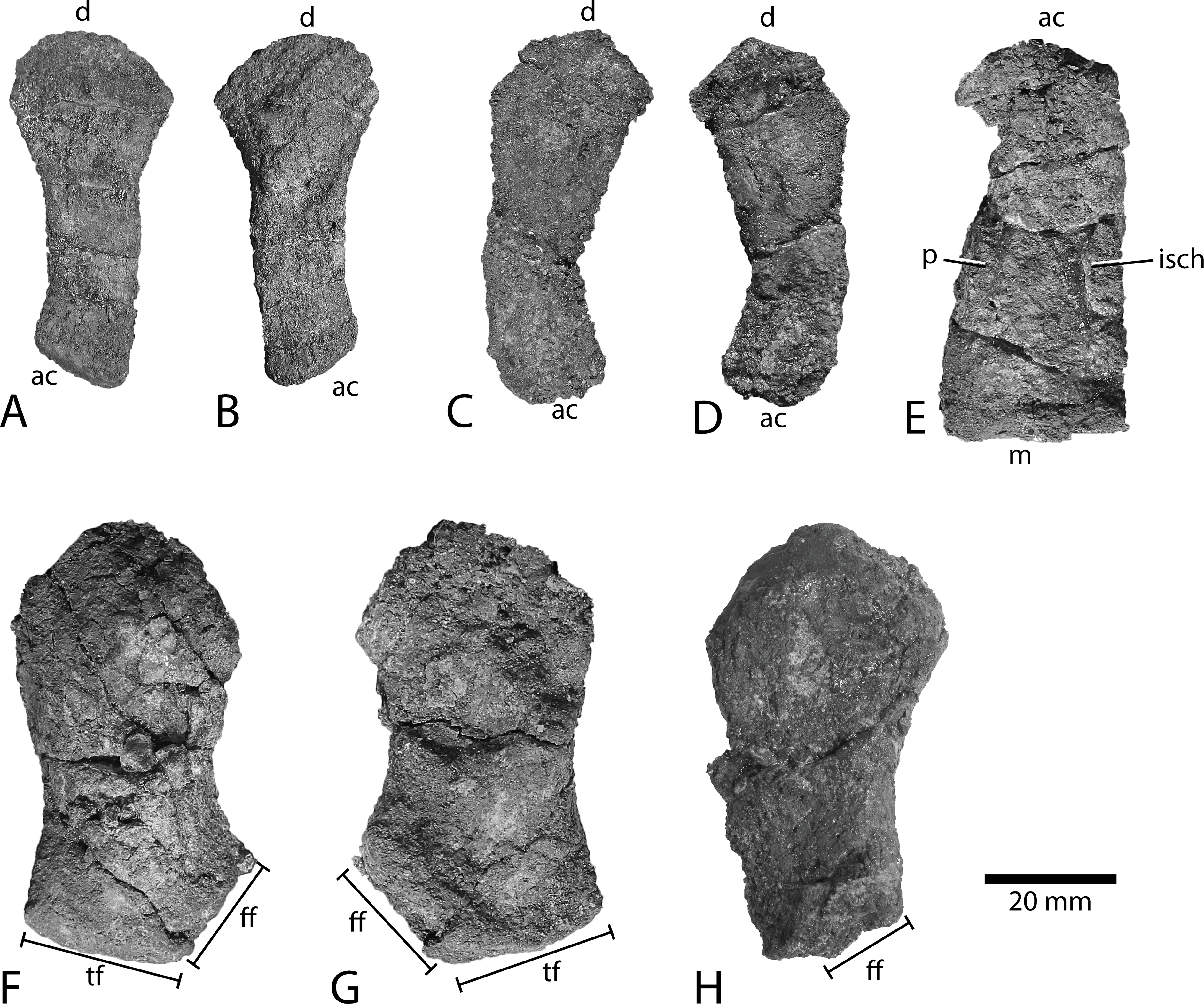 Fig 9. Pelvic girdle and femur of Keilhauia nui (PMO 222.655). Ilium in A and B lateral and medial (?) views. Posterior is to the left in A. The other ilium in C and D lateral (?) and medial (?) views. Posterior is to the right in C. Ischiopubis in E lateral or medial view. The better-preserved femur in F and G dorsal (?) and ventral (?) views. The other femur from the best preserved side in H dorsal or ventral view. Scale bar equals 20 mm. Abbreviations: ac acetabular end, d dorsal end, ff fibular facet, isch ischium, m medial end, p pubis, tf tibial facet.